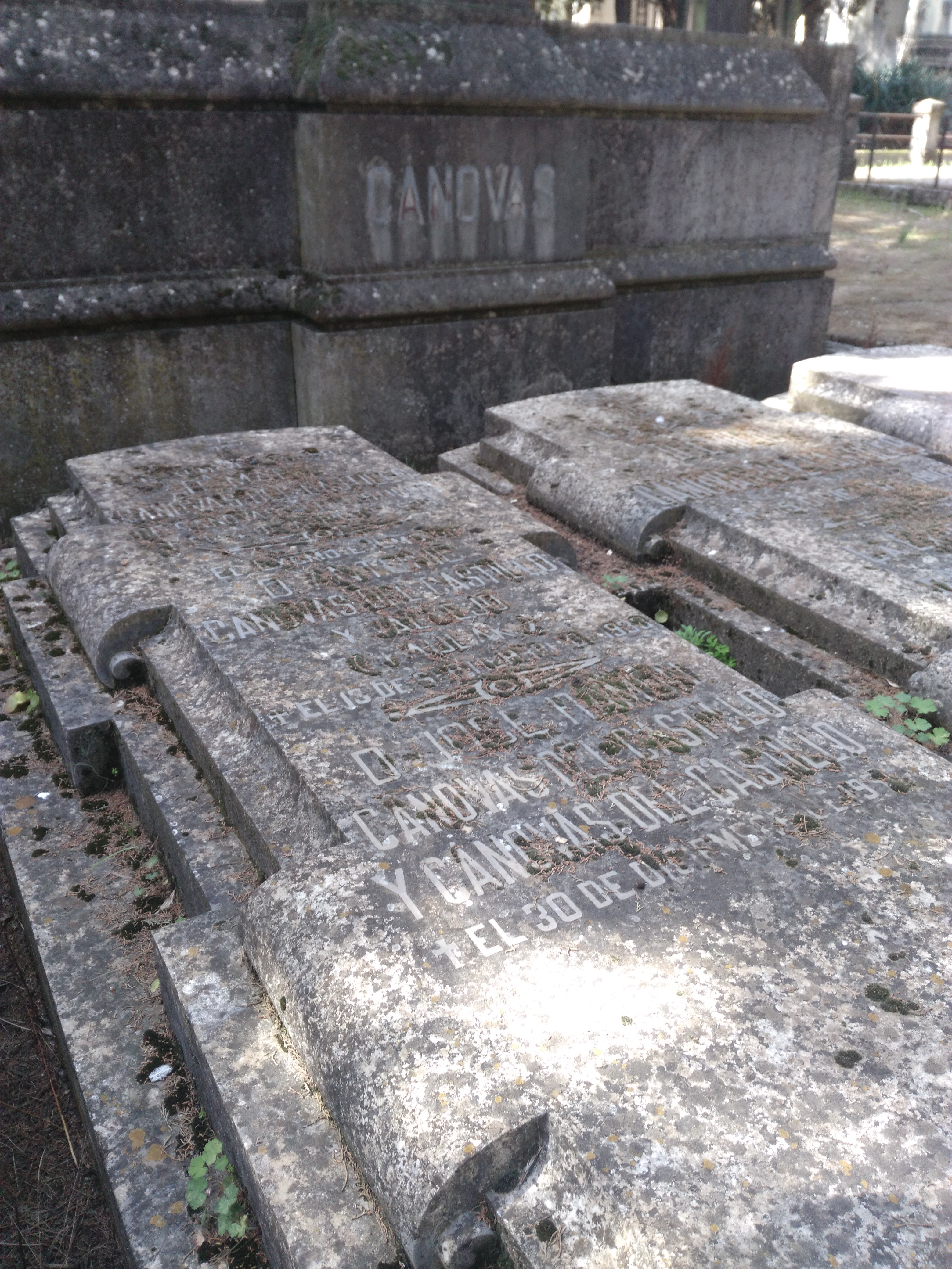 San Isidro Cemetery, Madrid.